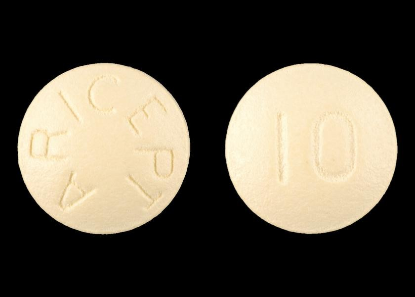 Drug Name: Aricept 10 MG Oral Tablet Ingredient(s): Donepezil Drug Label Imprint: 10;ARICEPT Color(s): Yellow Shape: Round Size (mm): 9.00 Score: 1 Inactive Ingredient(s): Show lactose monohydrate / starch, corn / cellulose, mi... Drug Label Author: Eisai Inc. DEA Schedule: Non-scheduled